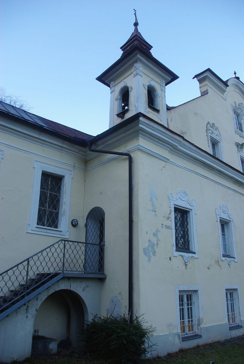 Kirchberg-Schlössl, Thumseestr. 11, 83435 Bad Reichenhall This is a photograph of an architectural monument.